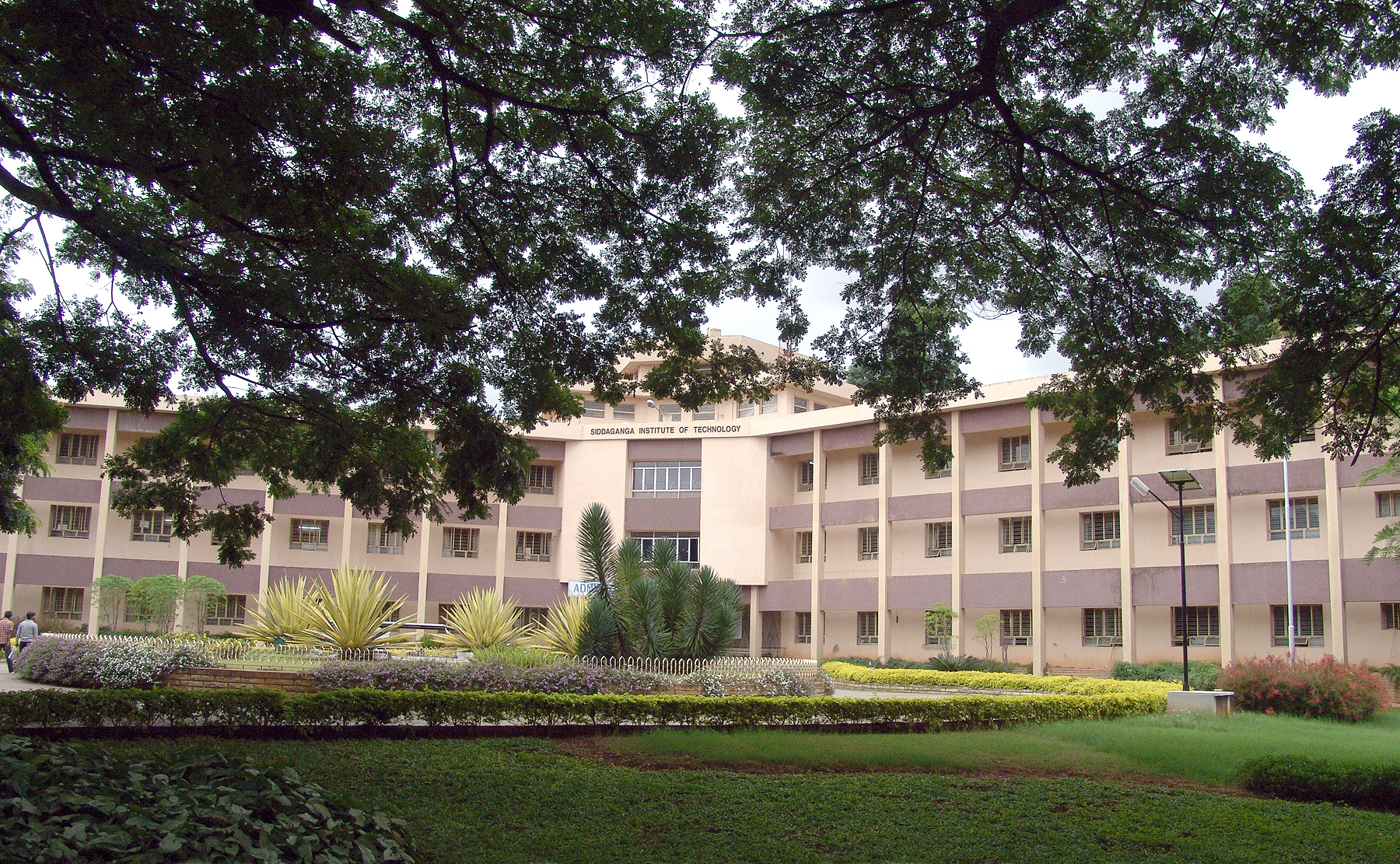 Administrative Block, SIT